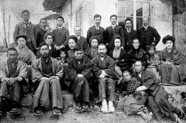 Norimatu 1912